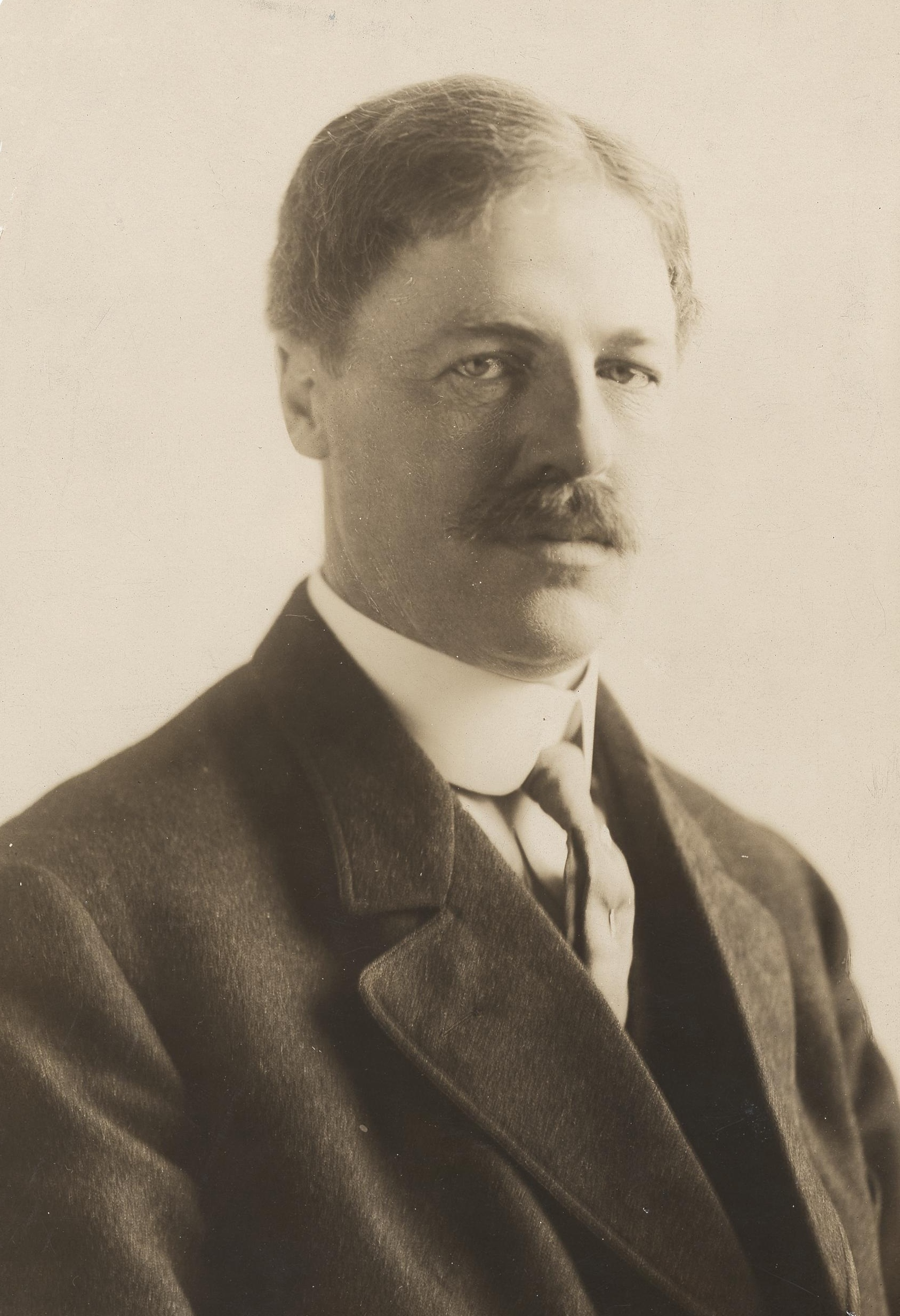 Description: Portrait of Benson. Tear in upper left corner. Benson, Frank Weston, 1862-1951 Creator/Photographer: Haeseler (Firm: Philadelphia, Pa.) Medium: Black and white photographic print Dimensions: 17 cm x 12 cm Date: c. 1895 Persistent URL: [1] Repository: Archives of American Art Native nameArchives of American ArtParent institutionSmithsonian InstitutionLocationWashington, D.C.Coordinates38° 53′ 52.44″ N, 77° 01′ 21.72″ W Established1954Web page control : Q2860568 VIAF: 151134814 ISNI: 0000 0004 5897 2996 LCCN: n79065944 NLA: 35007823 GND: 1023549-8 WorldCat institution QS:P195,Q2860568 Collection: Macbeth Gallery Records, c. 1890-1964 Accession number: aaa_macbgall_4627